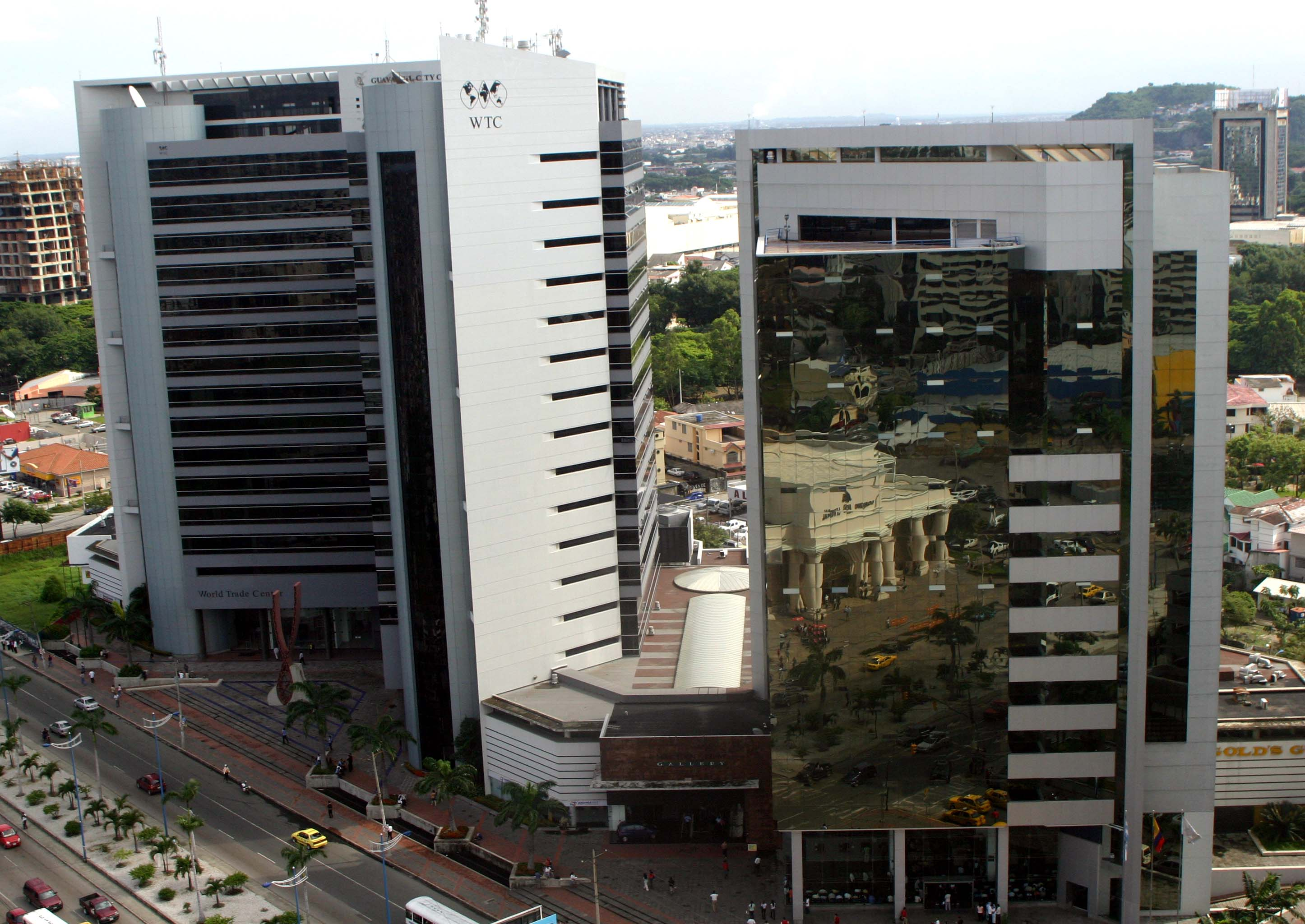 World Trade Center Guayaquil